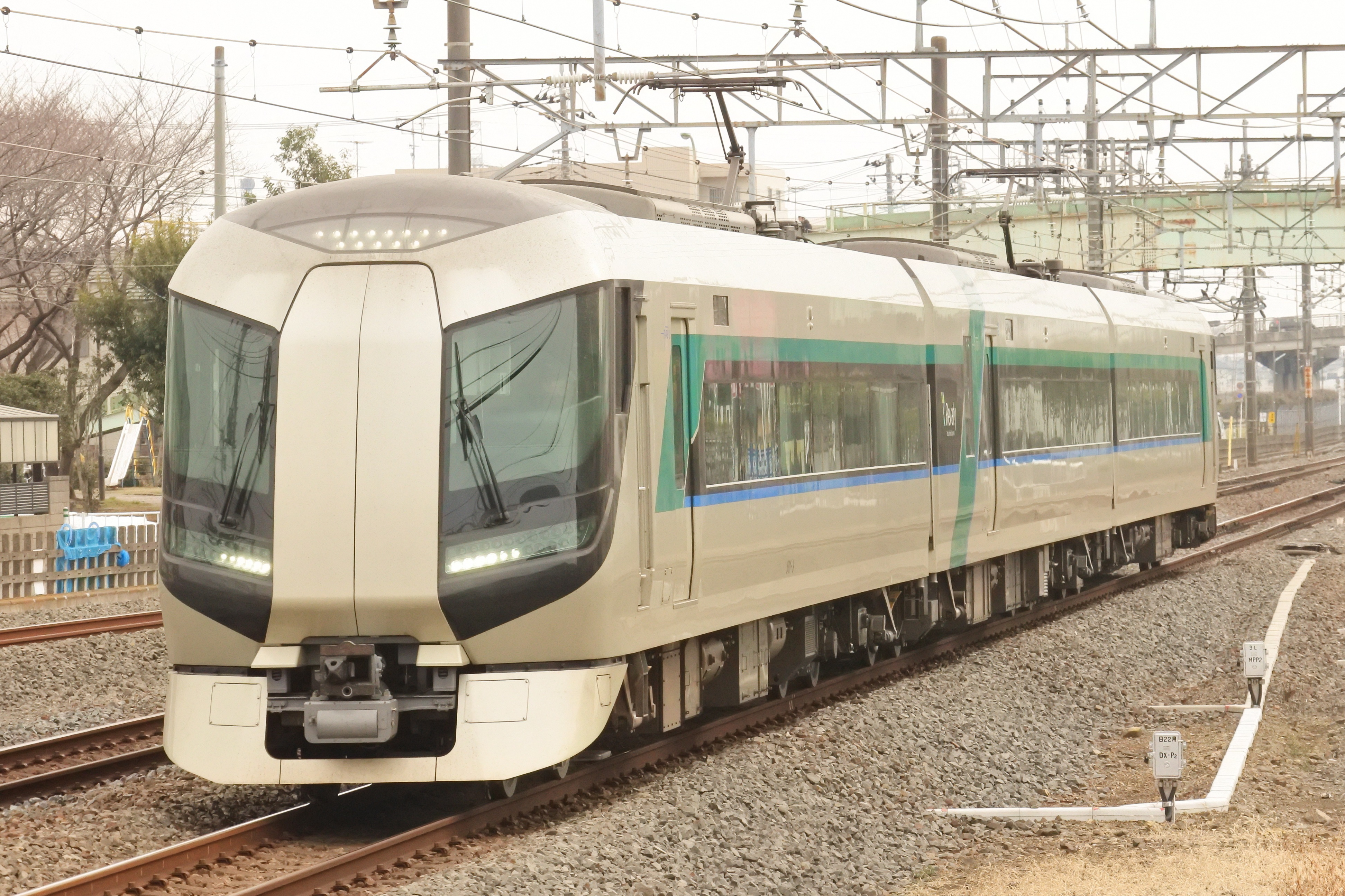 A Tobu Railway 500 series "Revaty" electric multiple unit at Sugito-takanodai Station on the Tobu Nikko Line in Saitama Prefecture, Japan